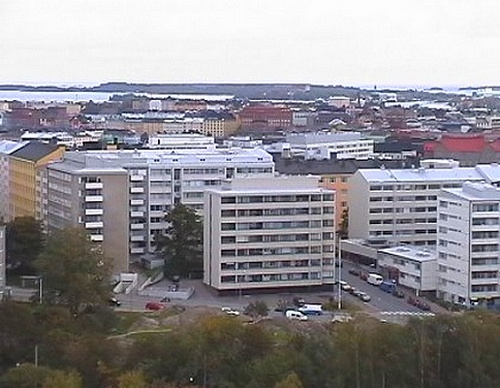 Kallio, Helsinki, Finland, a view from the Ferris Wheel "Rinkeli" in the nearby Linnanmäki (West/Northwest of Kallio), the Fall of 2007